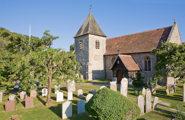 Church of Saint Peter and Saint Paul (Elevated camera position)